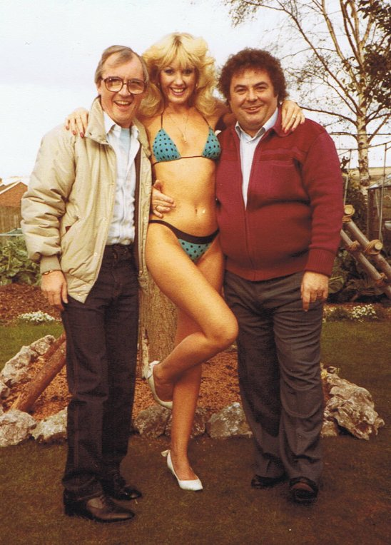 Photograph of Susie Silvey with Little and Large